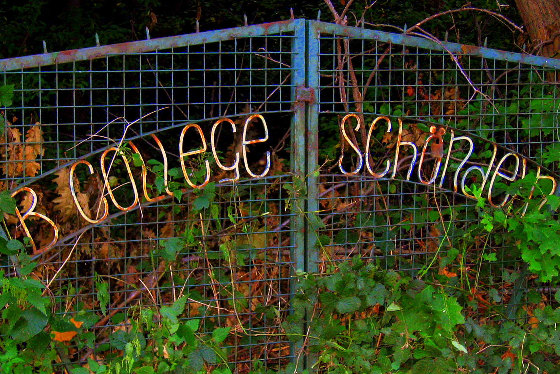 Old gate of Schöndeln College